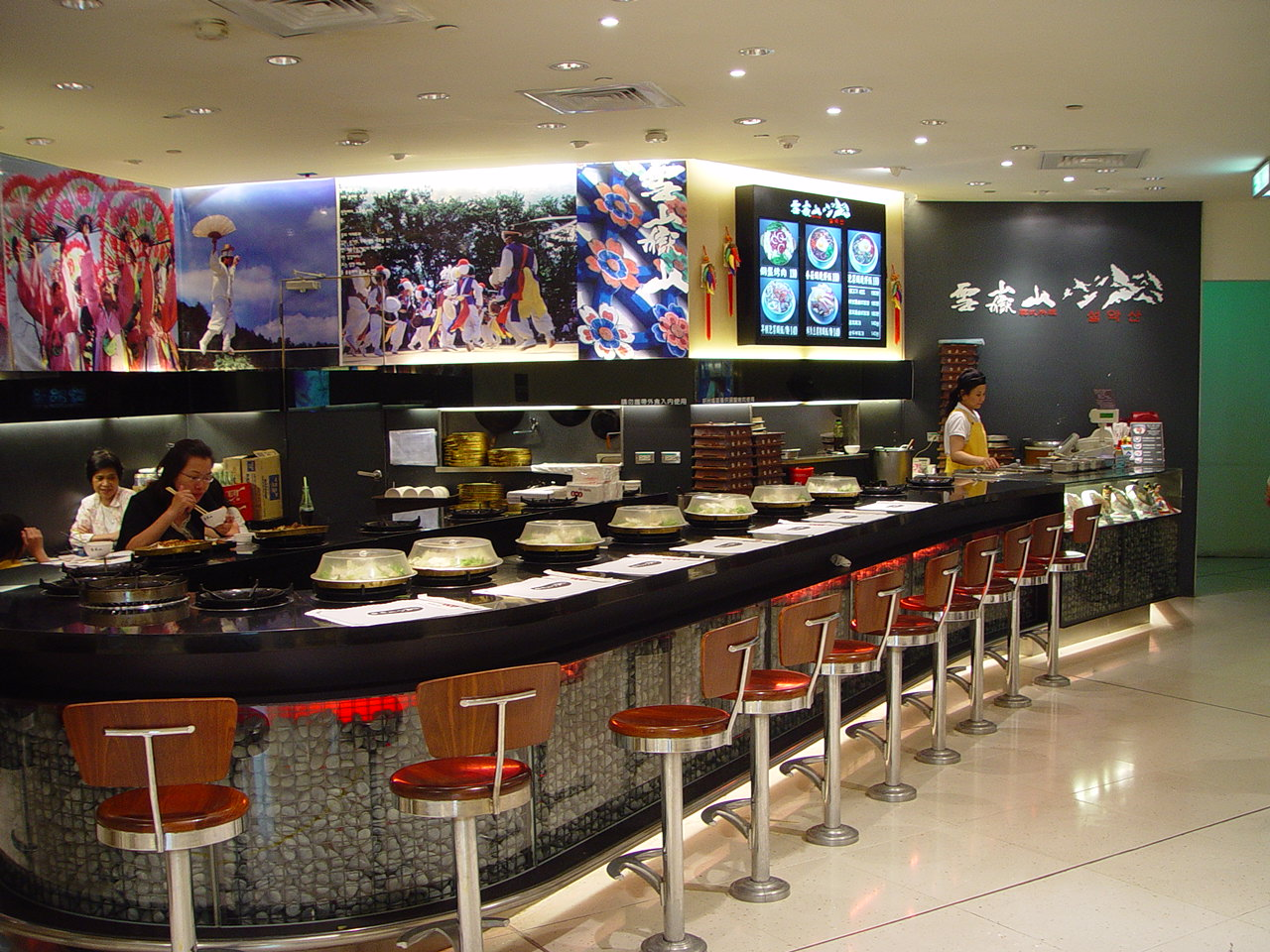 A Korean Bulgogi/Kimbab place at the food court of Taipei 101. Not bad, except the prices.